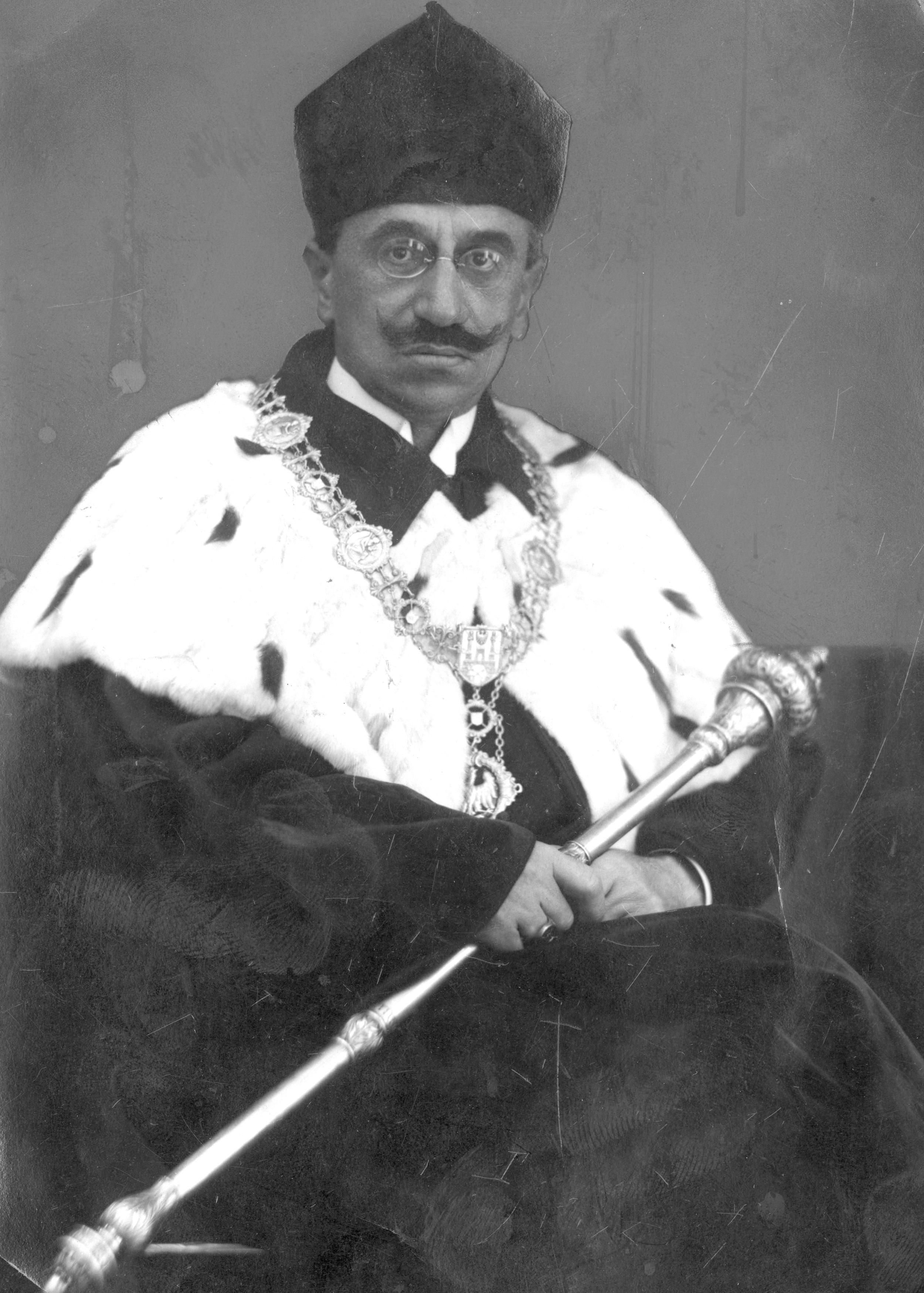 Stanisław Dobrzycki - Polish historian of literature (1875-1931)